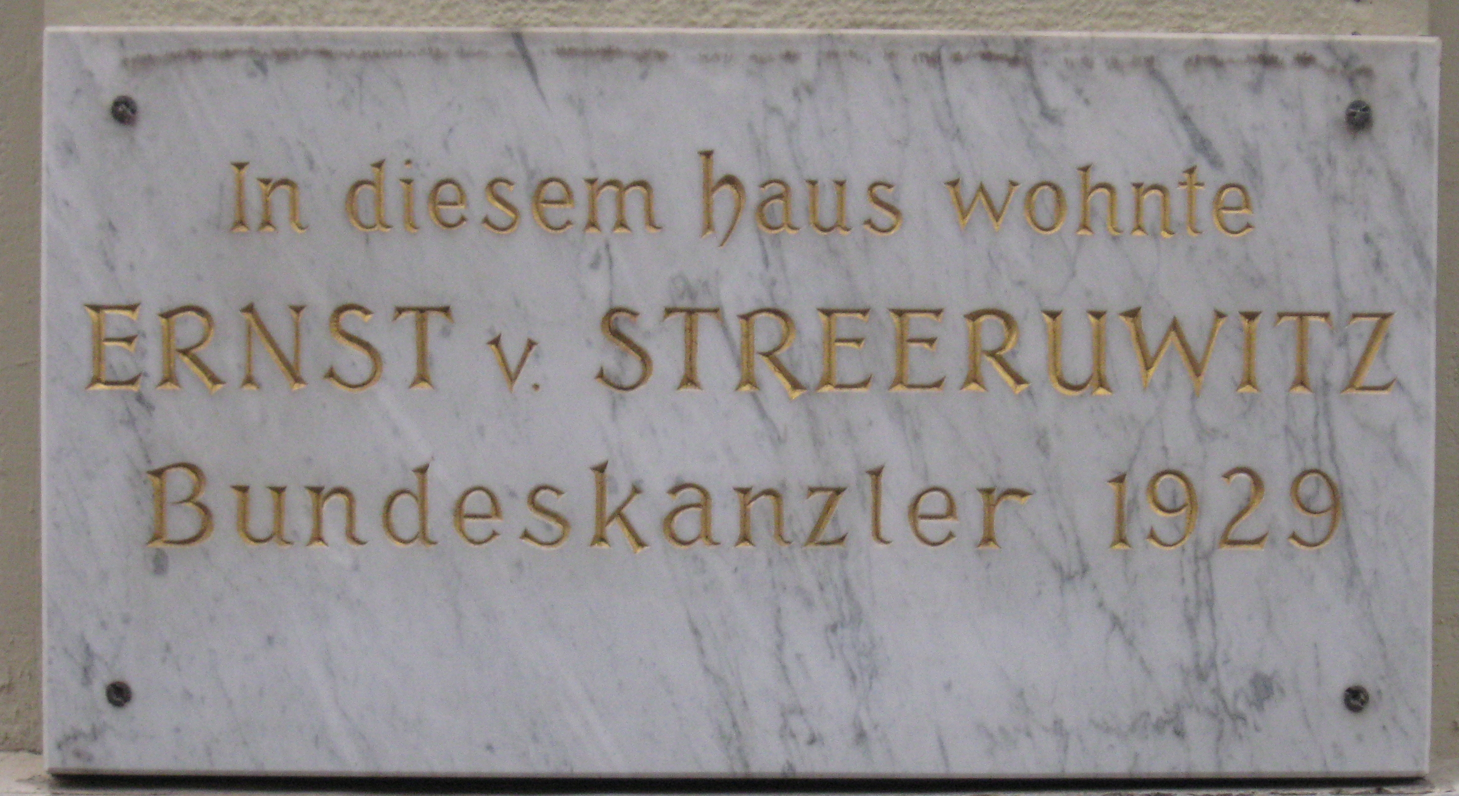 Plaque for Ernst von Streeruwitz (1874–1952), Chancellor of Austria for a few months in 1929, at his former home in 8., Skodagasse 15